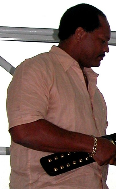 Athlete Ron Simmons